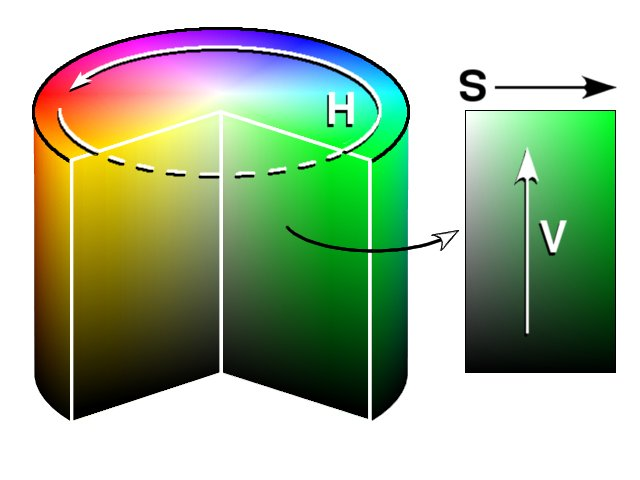 HSV color space visualization; HSV as a cylindrical object. Created by Wapcaplet in the GIMP.